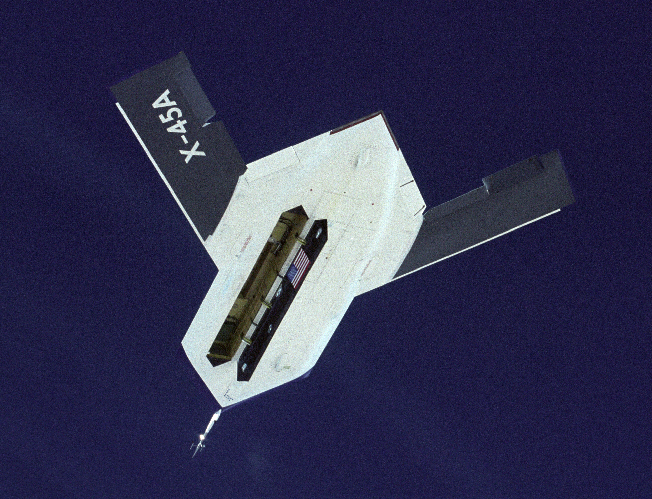 The DARPA/U.S. Air Force X-45A Unmanned Combat Air Vehicle (UCAV) system demonstration program completed the first phase of demonstrations, known as Block I, on Feb. 28, 2003. The final Block I activities included two flights at Dryden, during which safe operation of the weapons bay door was verified at 35,000 feet and speeds of Mach 0.75, the maximum planned altitude and speed for the two X-45A demonstrator vehicles.